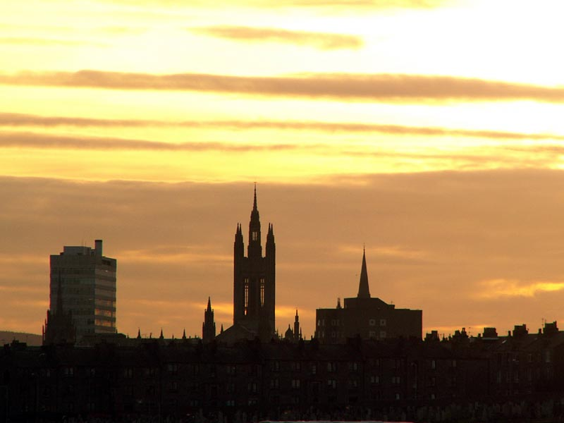 Skyline of Aberdeen, Scotland